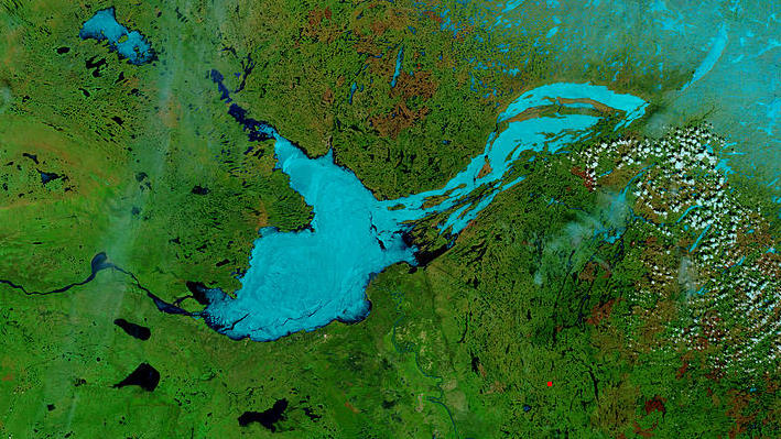 These true- and false-color images of central Canada show the Great Slave Lake in the Northwest Territories (top) and Lake Athabasca to the southeast. Lake Athabasca straddles the border between Alberta (west) and Saskatchewan (east). A fire (red dot) is burning in Alberta, and the snow capped Rocky Mountains cut through southwest Alberta at bottom left. In the false-color image, vegetation is green, water is dark blue, and ice (or snow) is light blue. -NASA